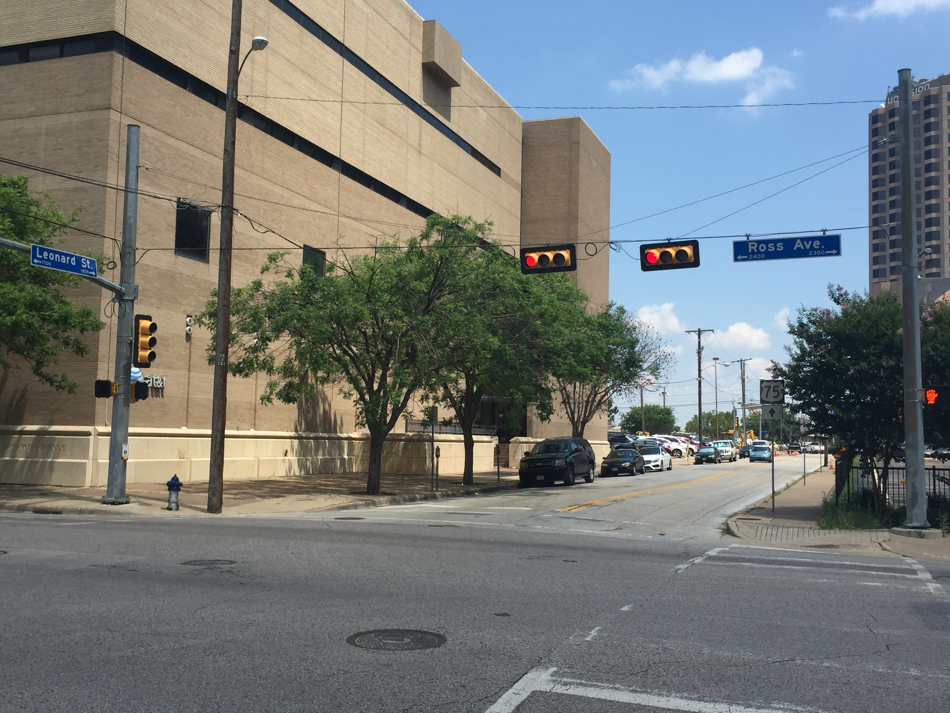 Old US 75 sign in downtown Dallas, pointing southeast on Leonard Street to a now-decommissioned segment of US 75